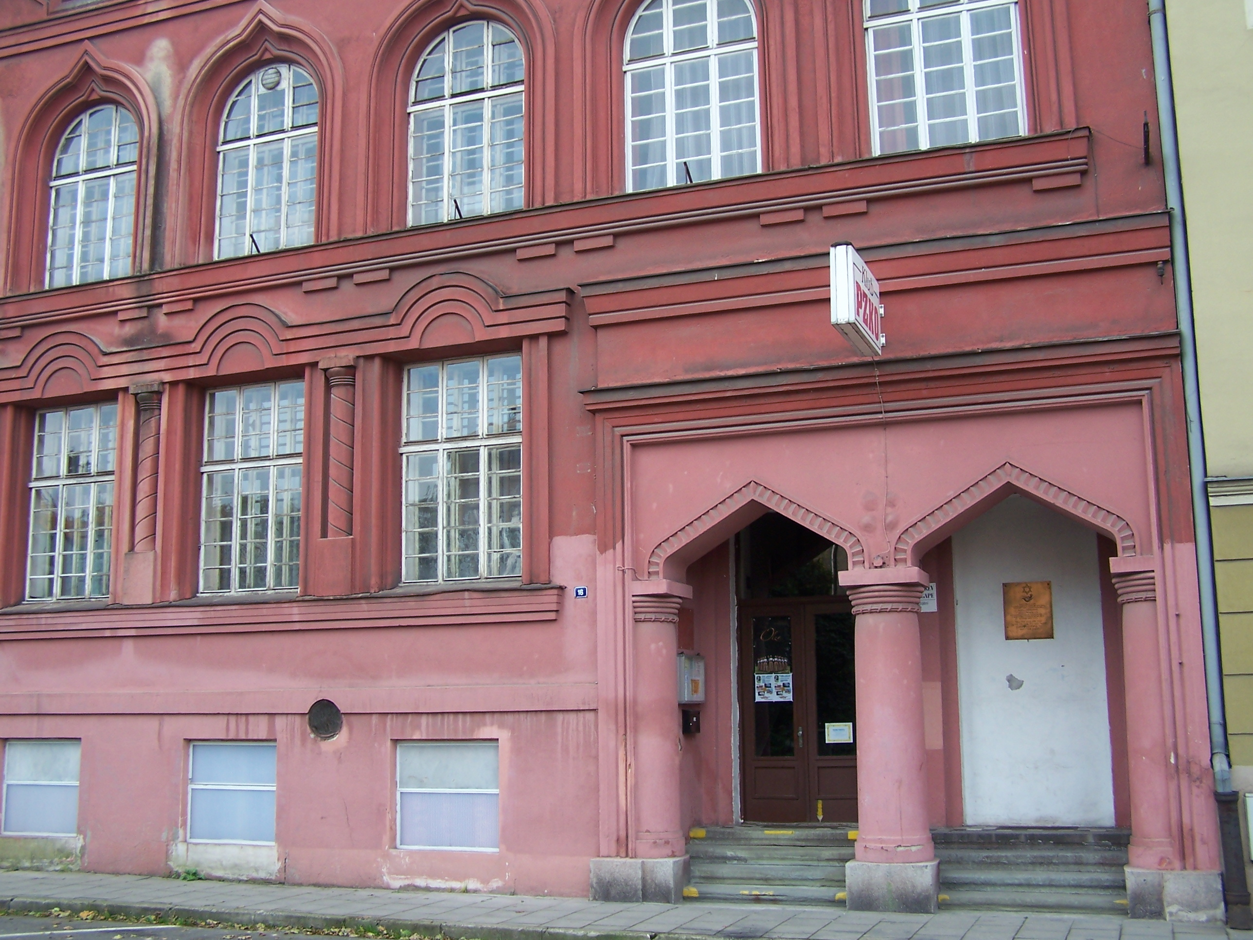 Only existing synagogue in Český Těšín (Czeski Cieszyn). It now houses the local PZKO (Polish Cultural and Educational Union) club.